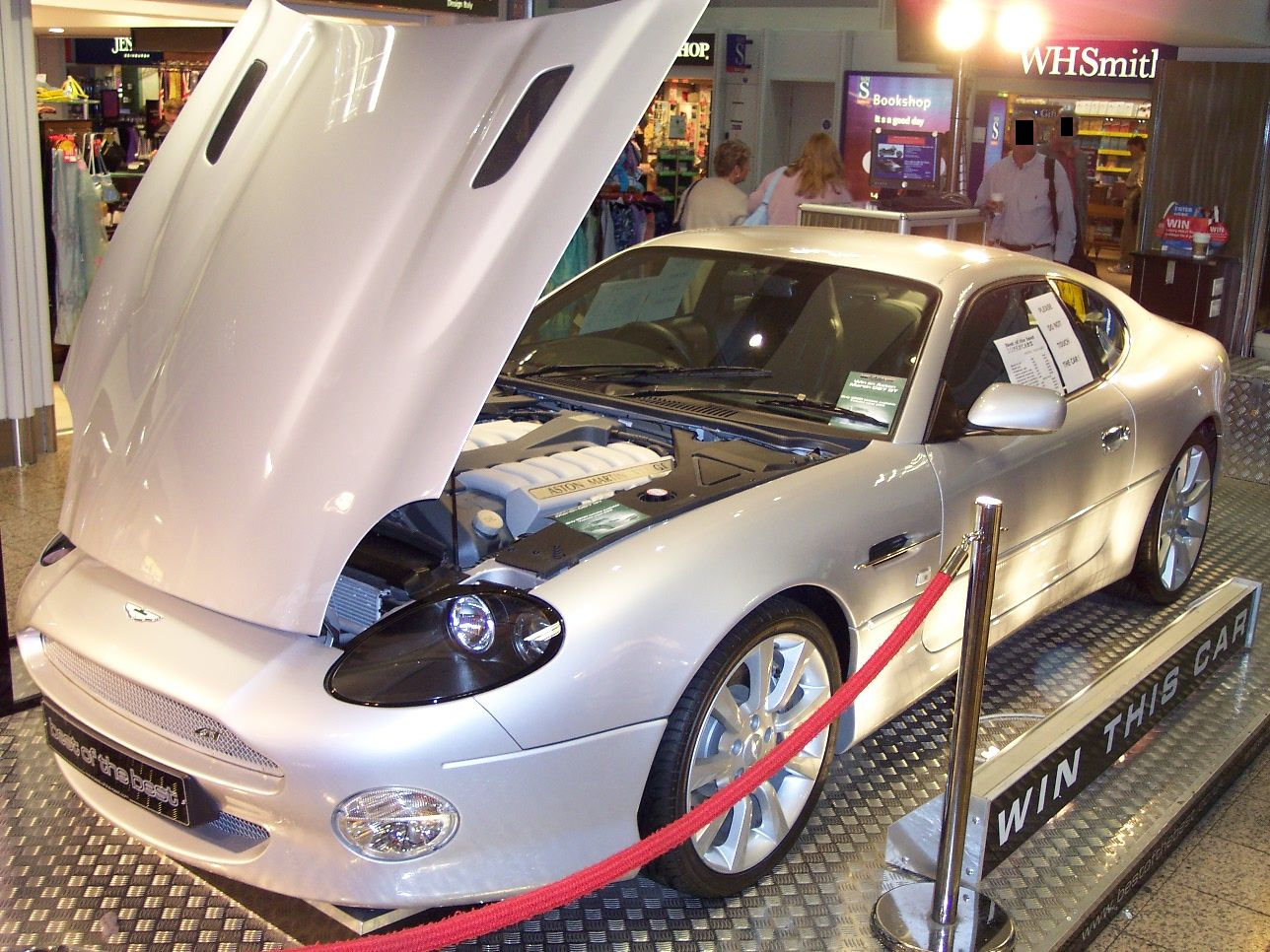 Aston Martin DB 7